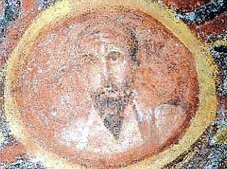 Image of Paul the Apostle (c. 380 C.E.), found under layers of white calcium deposits in the 4th century catacombs of St. Tecla in Rome